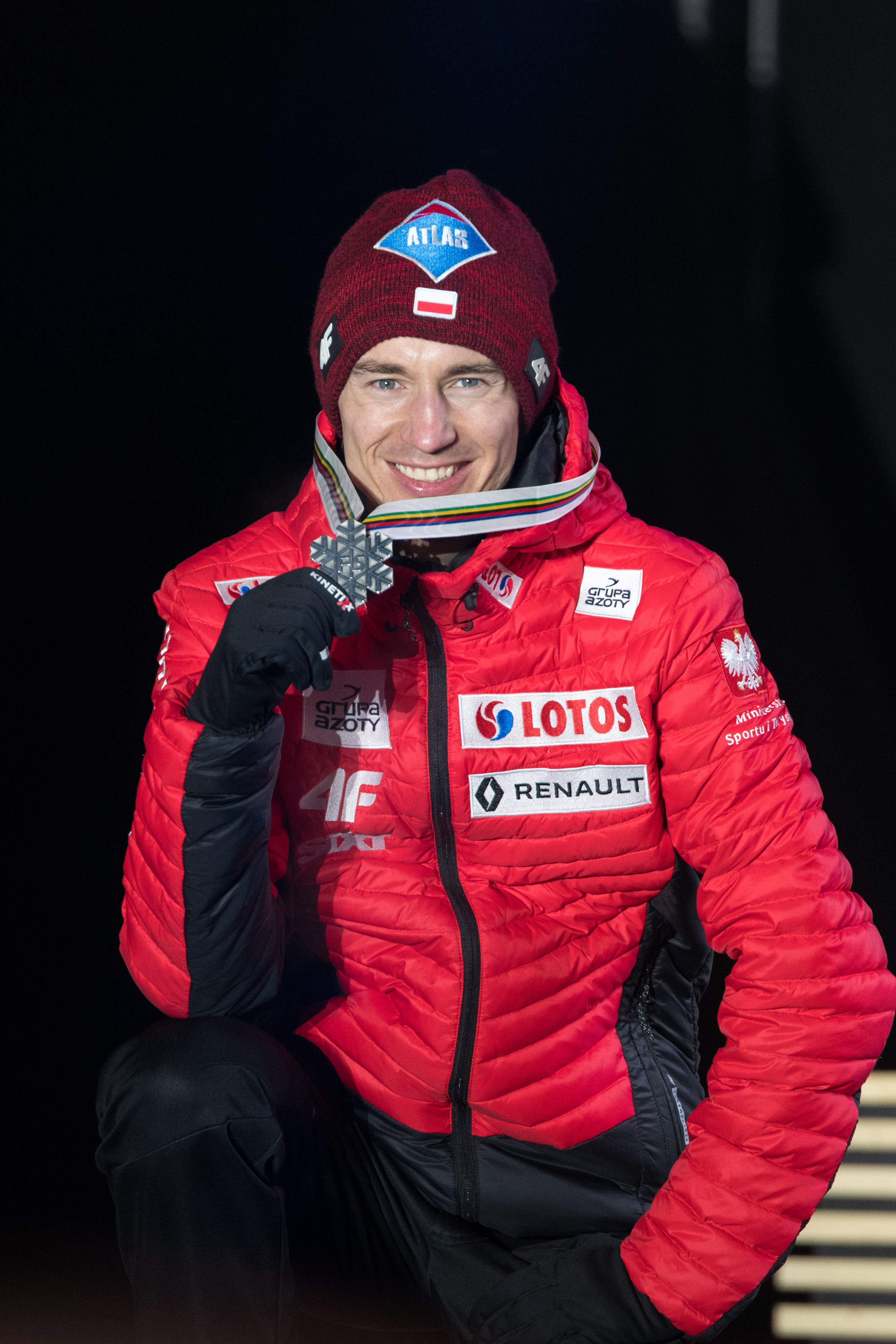 FIS Nordic Wolrd Ski Championships Seefeld 2019 - Medal Ceremony at the Medal Plaza. Picture shows Kamil Stoch (POL).